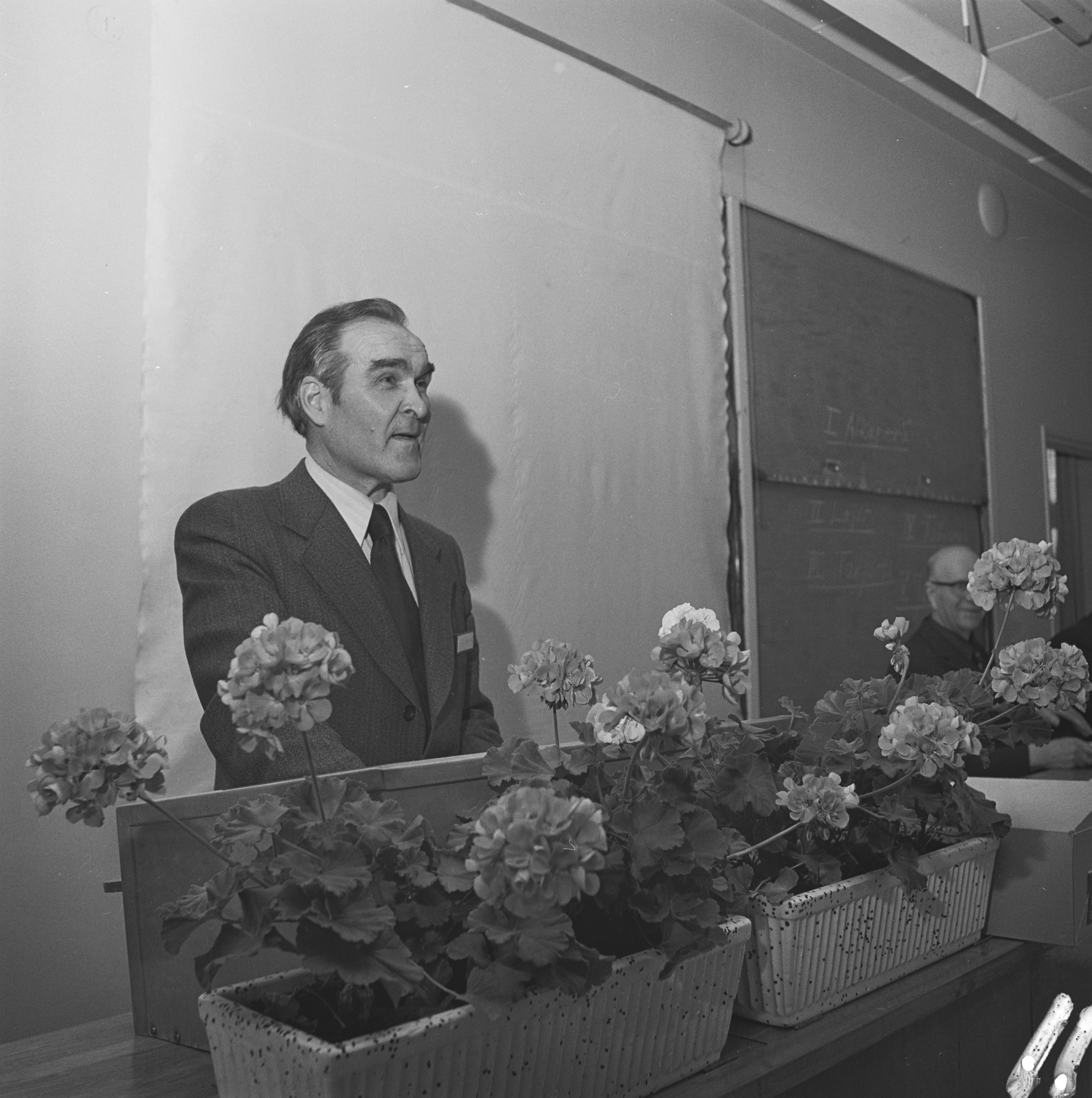 Photograph of the Finnish lawyer Viljo Hakulinen (1922–1996).